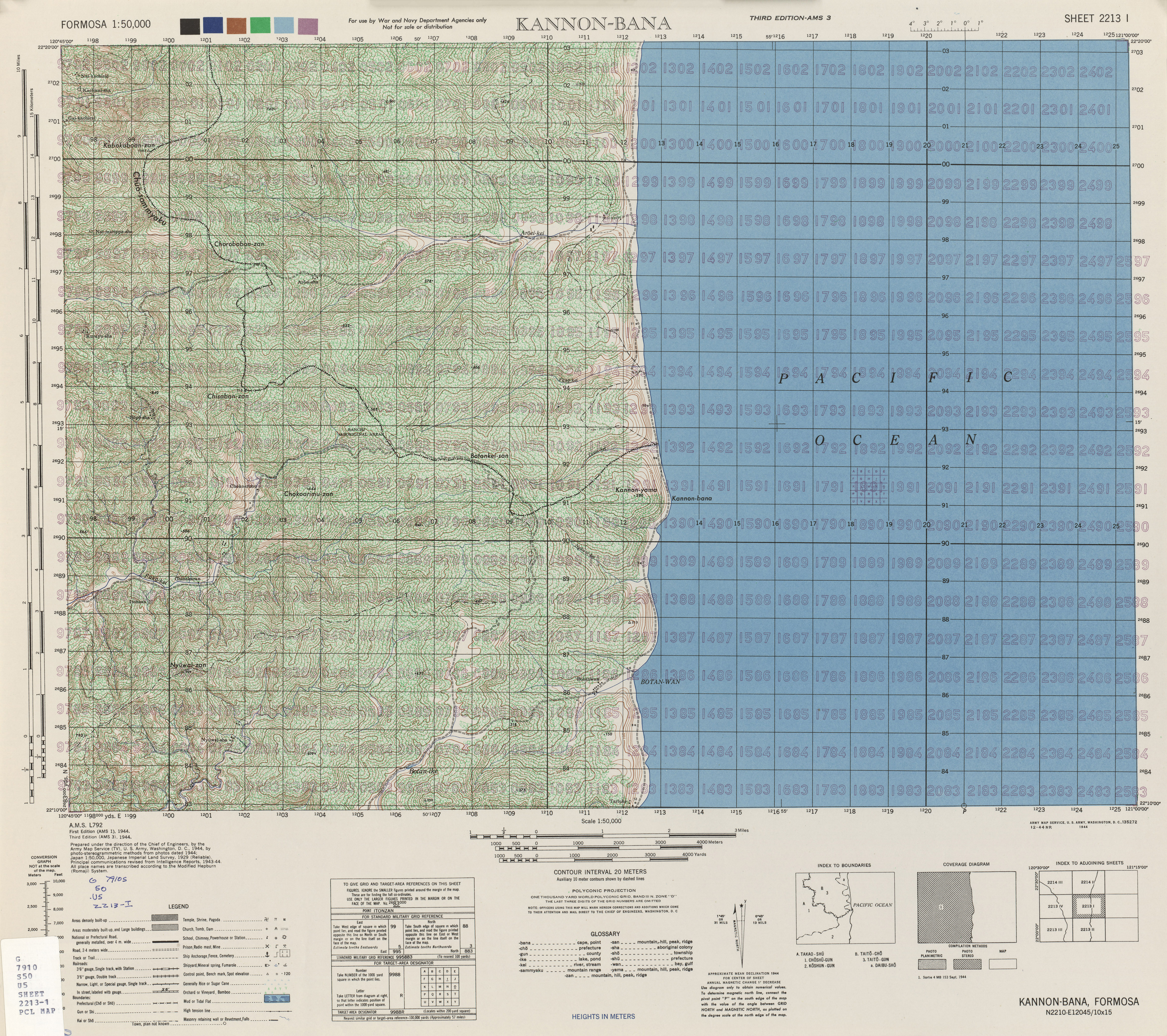 Map from Formosa (Taiwan) 1:50,000 AMS Series L792